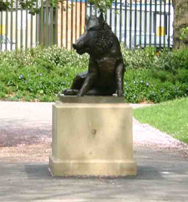 The New Florentine Boar at Derby Arboretum, this bronze replaces the statue destroyed by the Luftwaffe in 1941